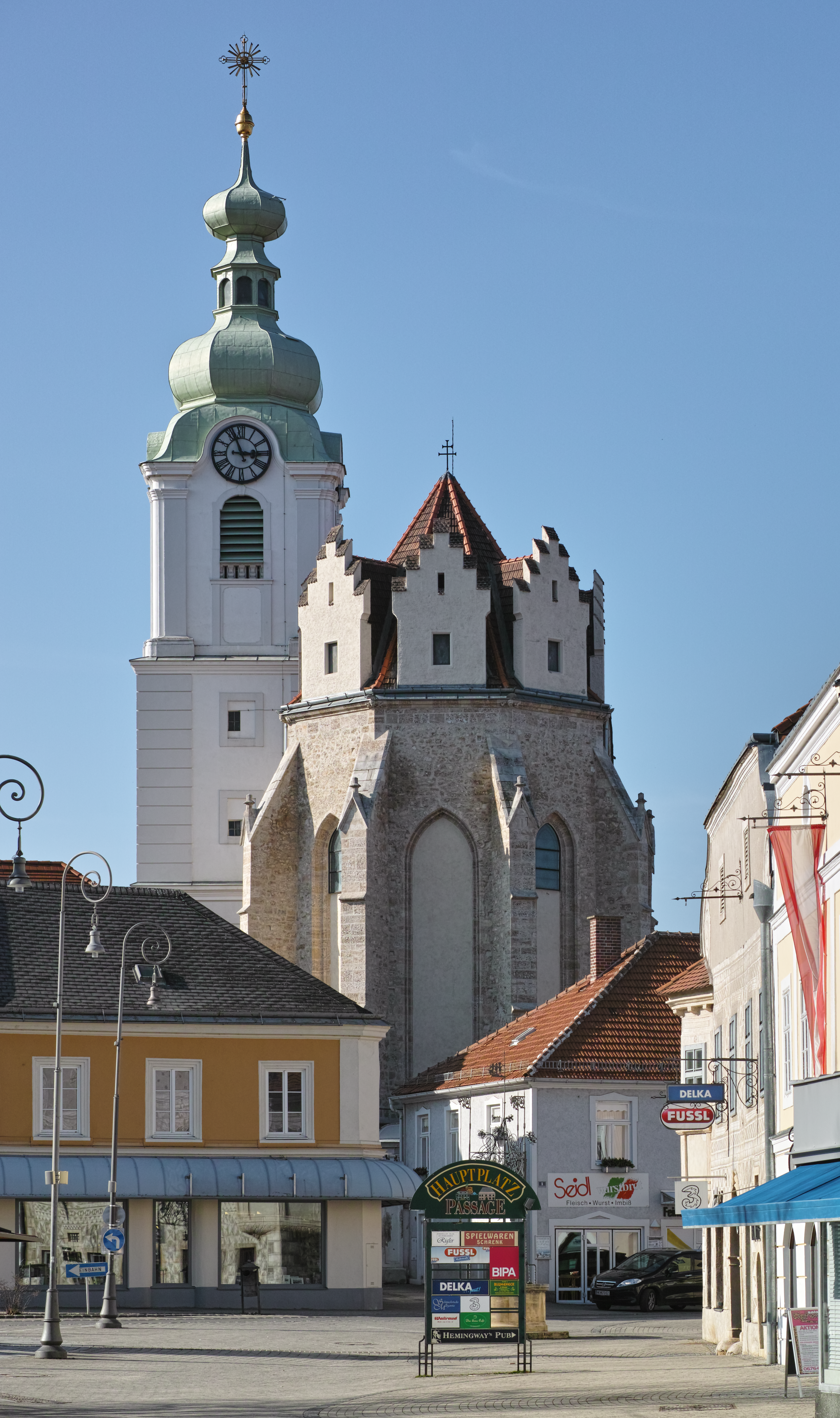 The Parish Church in Neunkirchen, Lower Austria from south east on March 8, 2014.